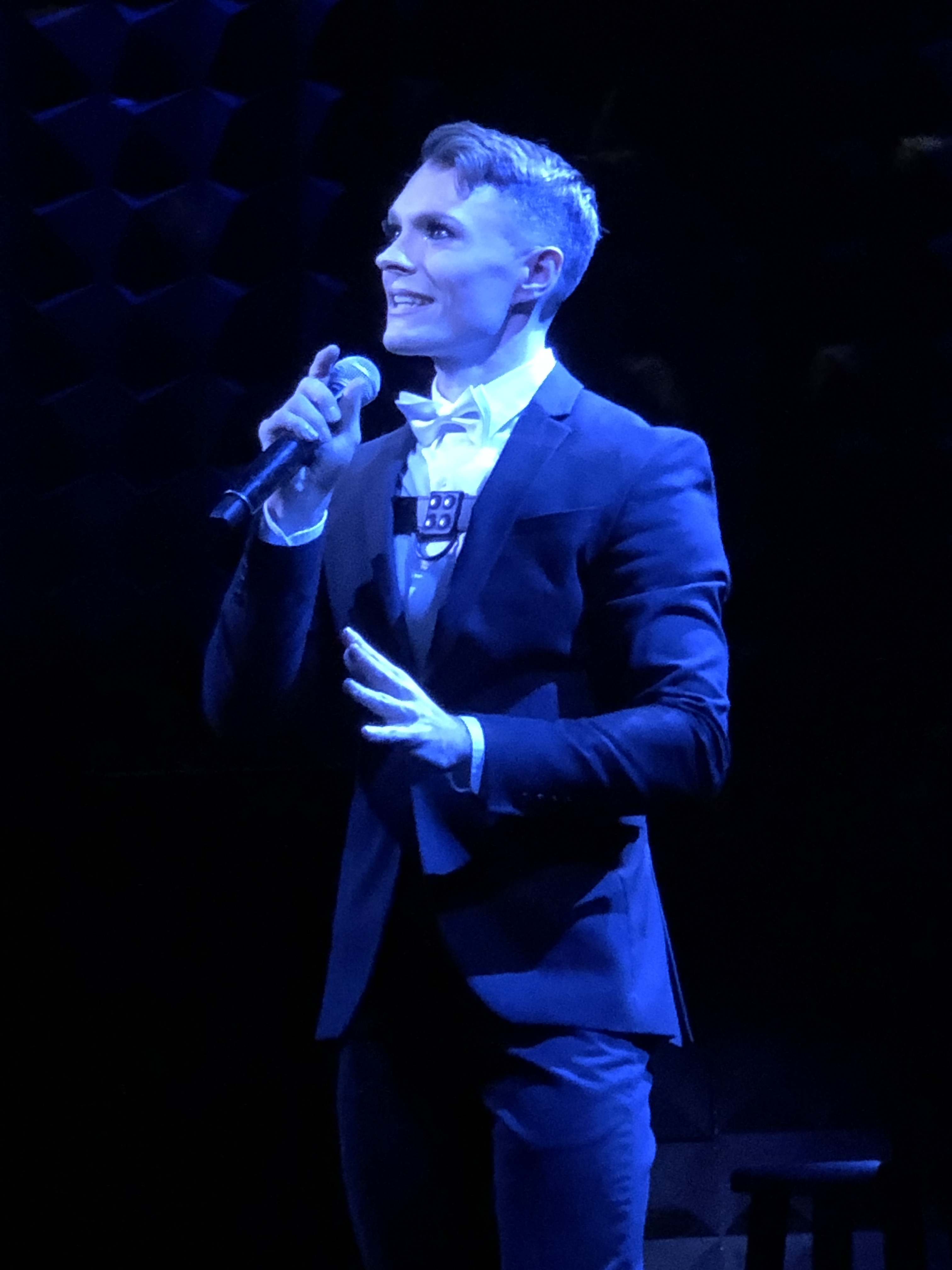 Kim David Smith performing live at Joe's Pub, November 2018.